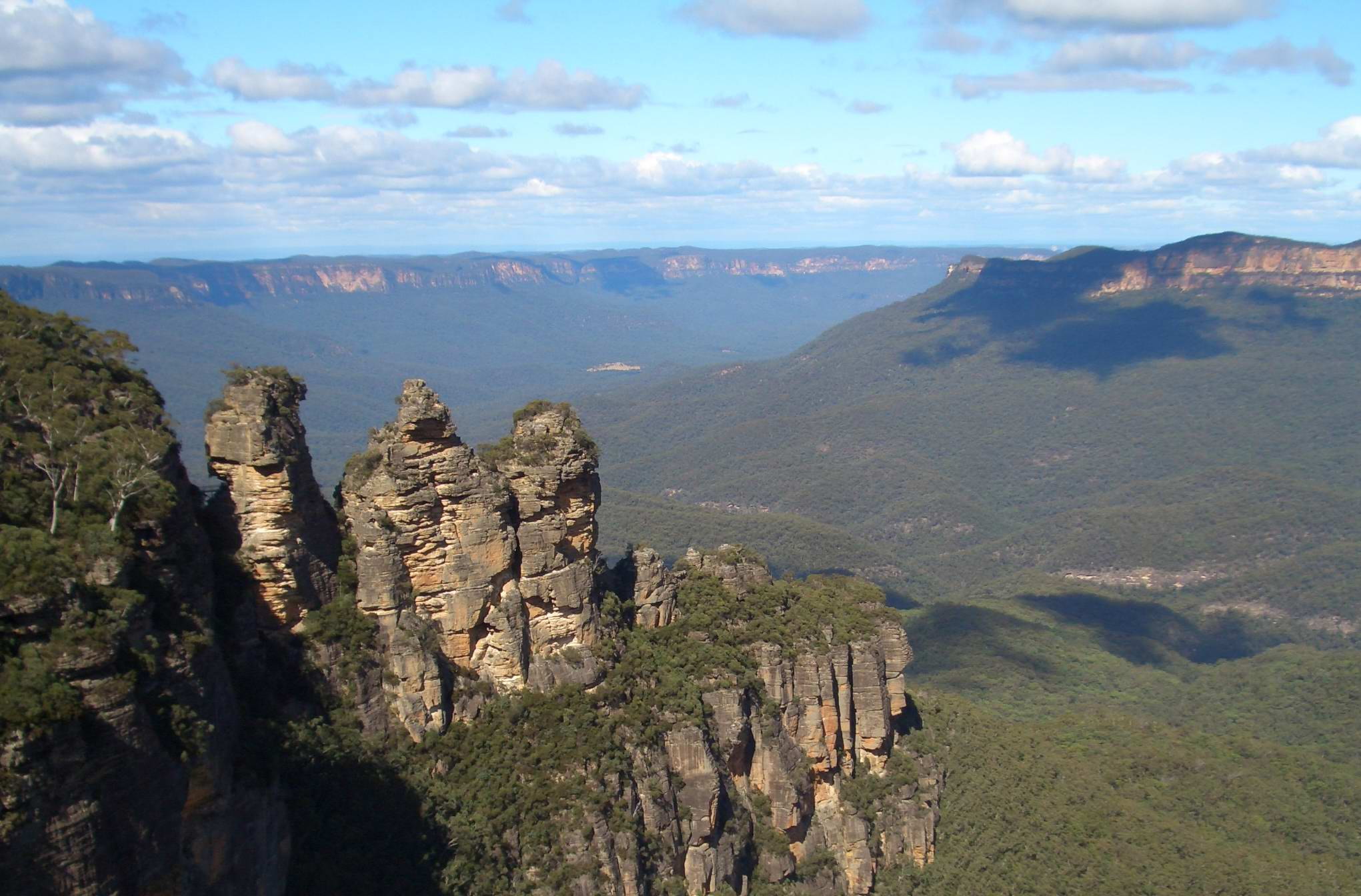 Three Sisters, Blue Mountains, NSW, Australia